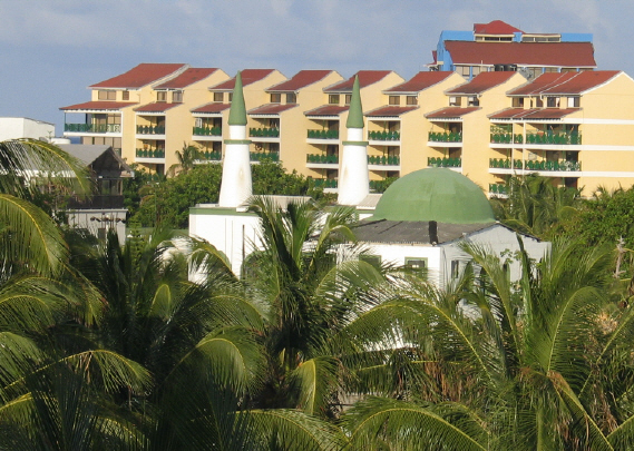 Author is Myself. I took this photo whilst on vacation in San Andres Colombia. And hereby release it to the public domain.